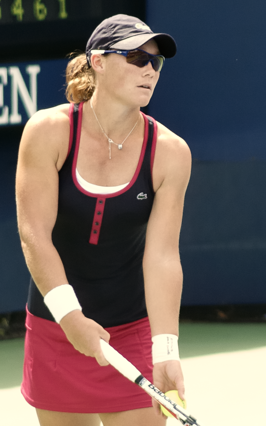 Samantha Stosur at the 2009 US Open